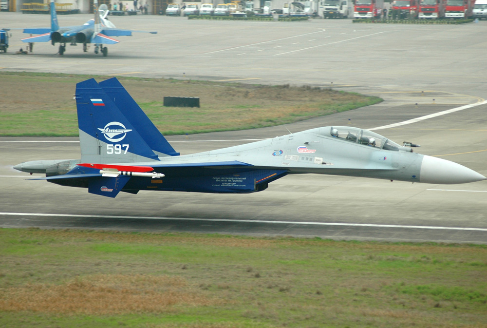 Sukhoi Su-30LL demonstrator flying along the runway at Zhangjiajie Hehua Airport less than 1 metre off the ground. The aircraft was being piloted by Anatoly Kvochur